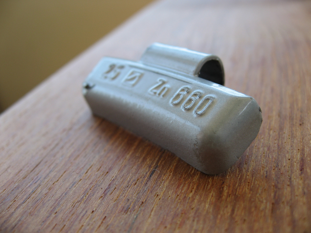 Tire weight made of Zinc